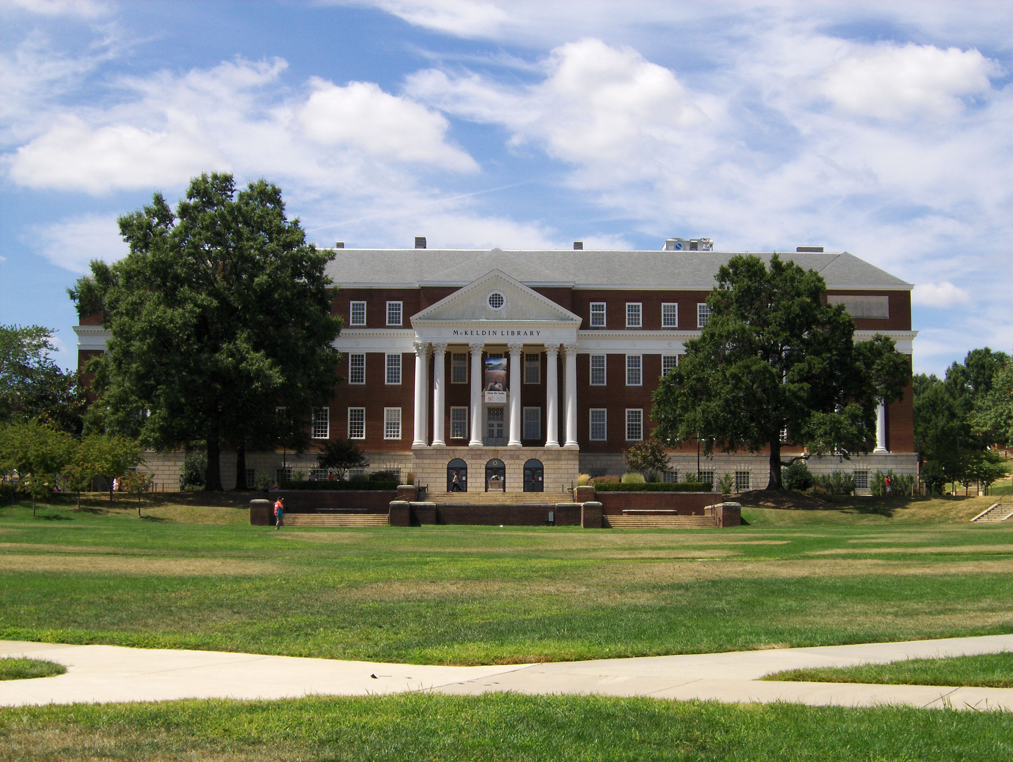 McKeldin Library at the University of Maryland, College Park.